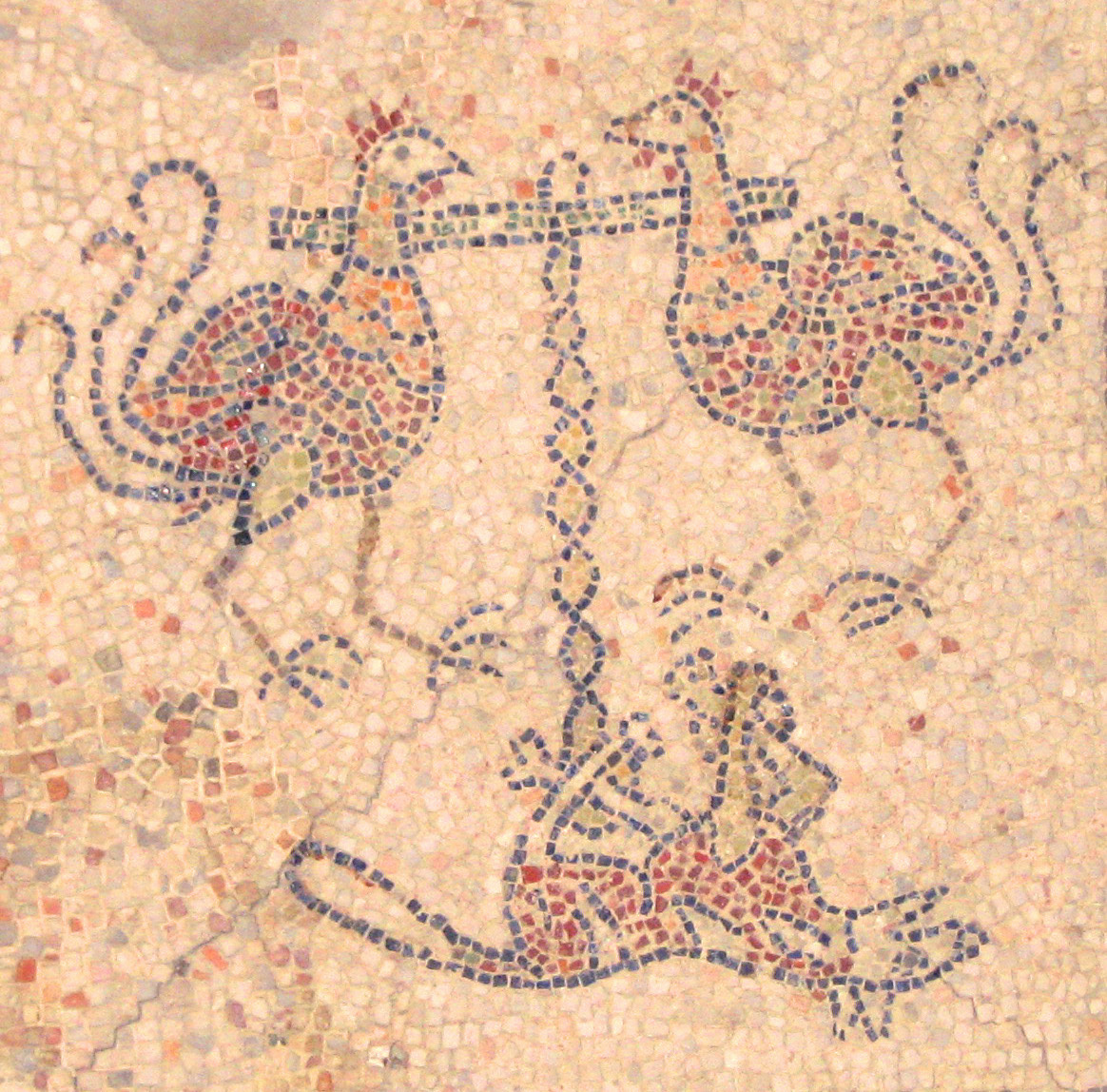 detail of a former floor mosaic dating from year 1213 Basilika S. Giovanni Evangelista, Ravenna motif from Roman de Renart Branche XVII : La mort de Renart, cf. mosaicocidm.it